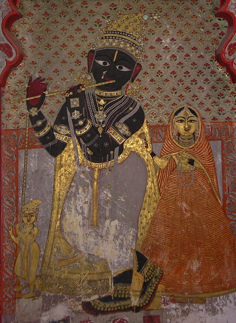 14th century Fresco of Krishna on interior wall City Palace, Udaipur